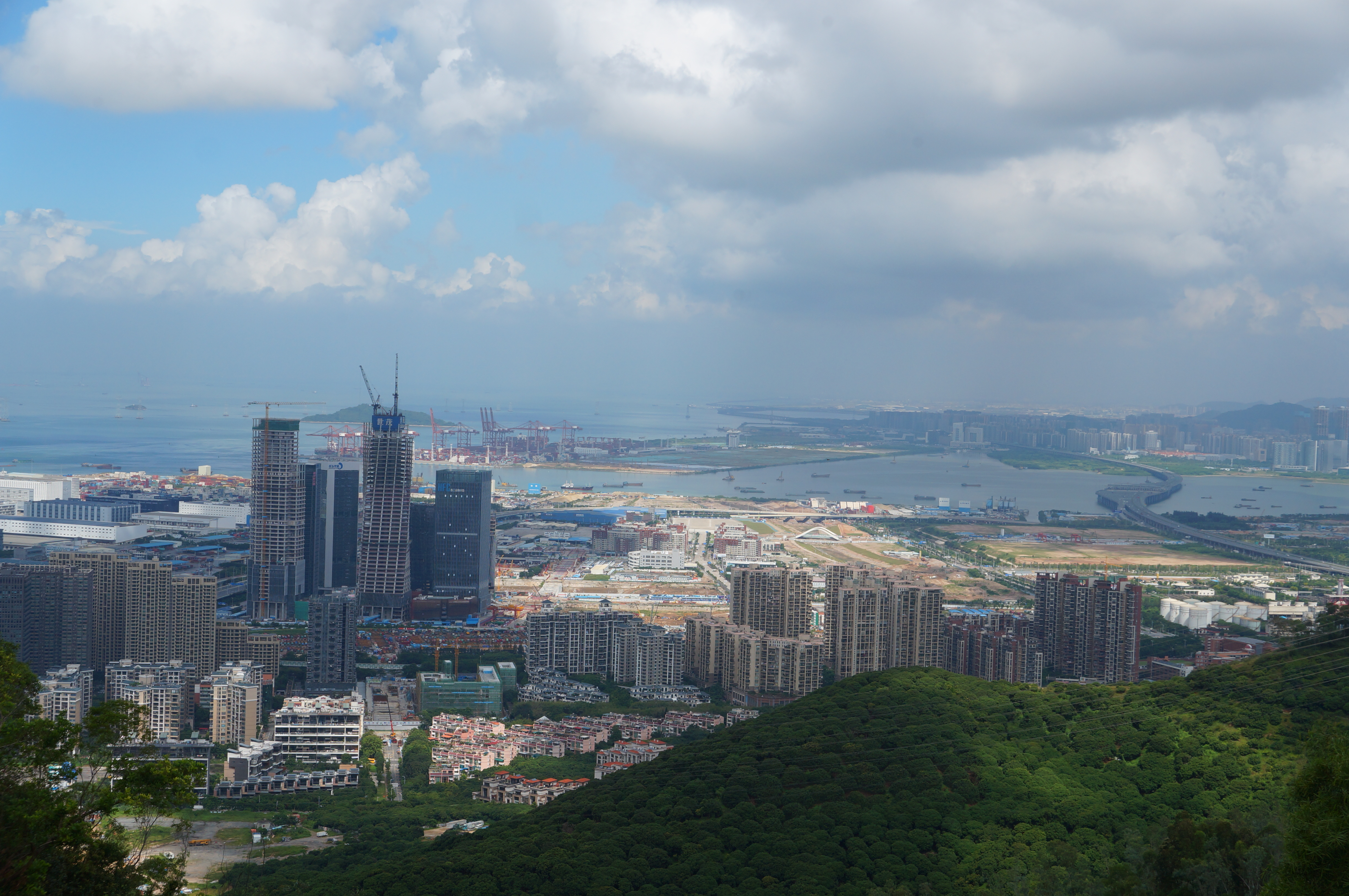 Qianhai